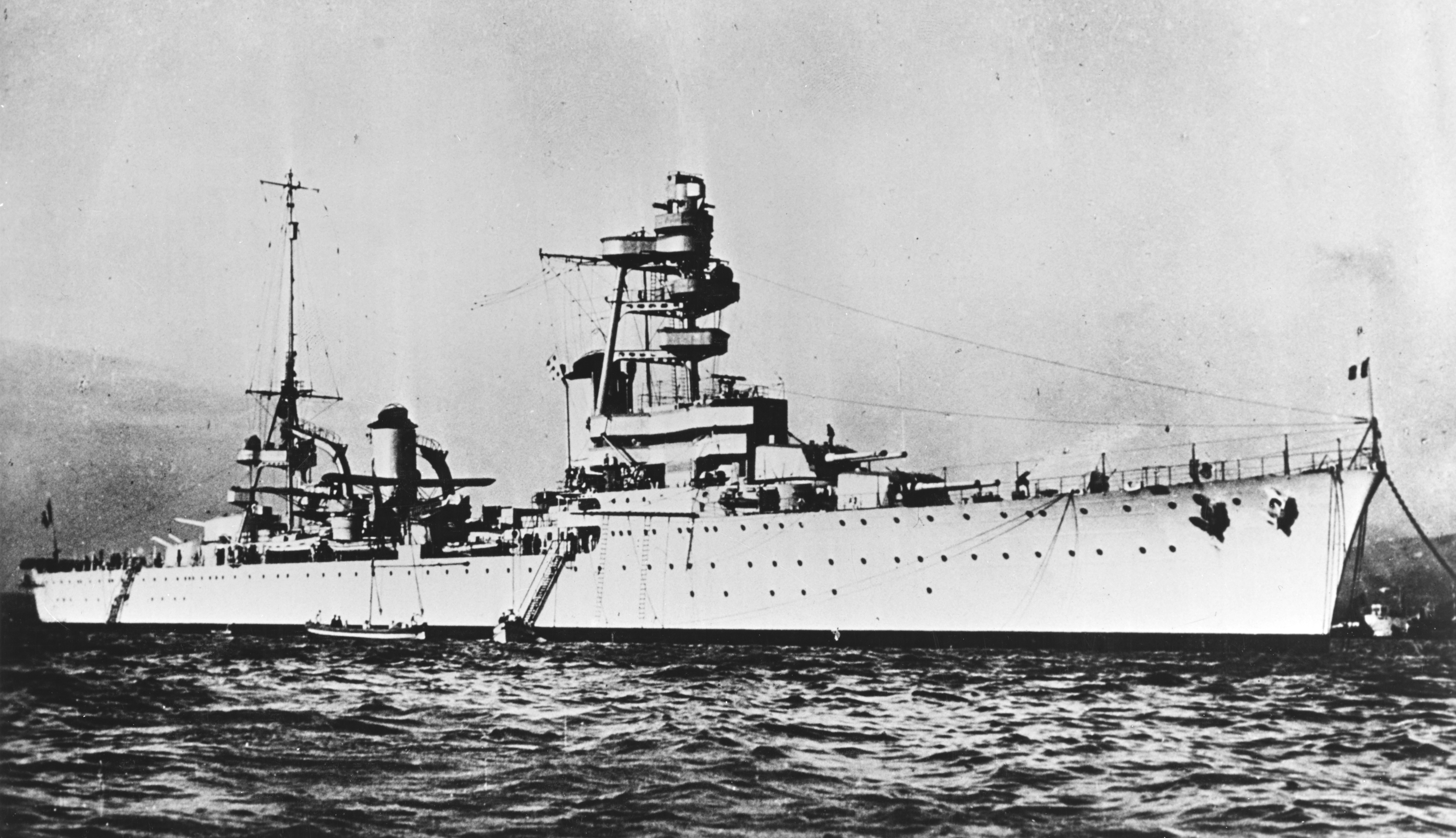 The French heavy cruiser Foch in the 1930s.